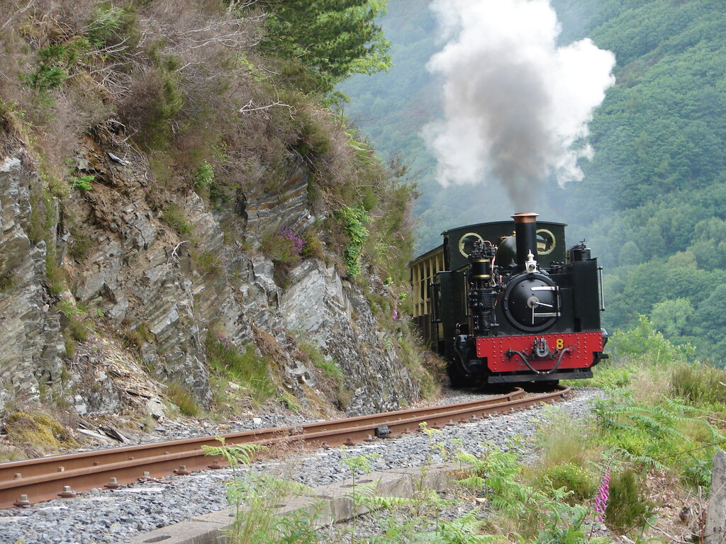 Vale of Rheidol Railway Nearing the terminus at Devil's Bridge, the train negotiates the curves through Coed Ty'n-y-castell, the locomotive working hard on the gradient.